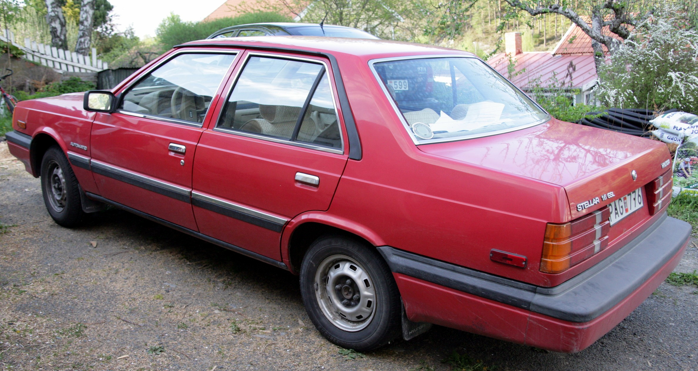 1986 Stellar 1.6 GSL automatic with 75PS. Wrongly given the model year 1987 in the Swedish vehicle registry when it was brought to Sweden from Kuwait in December 1989. Chassis no KMHSF31KPGU150370. Cropped some pixels off all the sides, scaled image 50% in Gimp, saved at 90% quality.